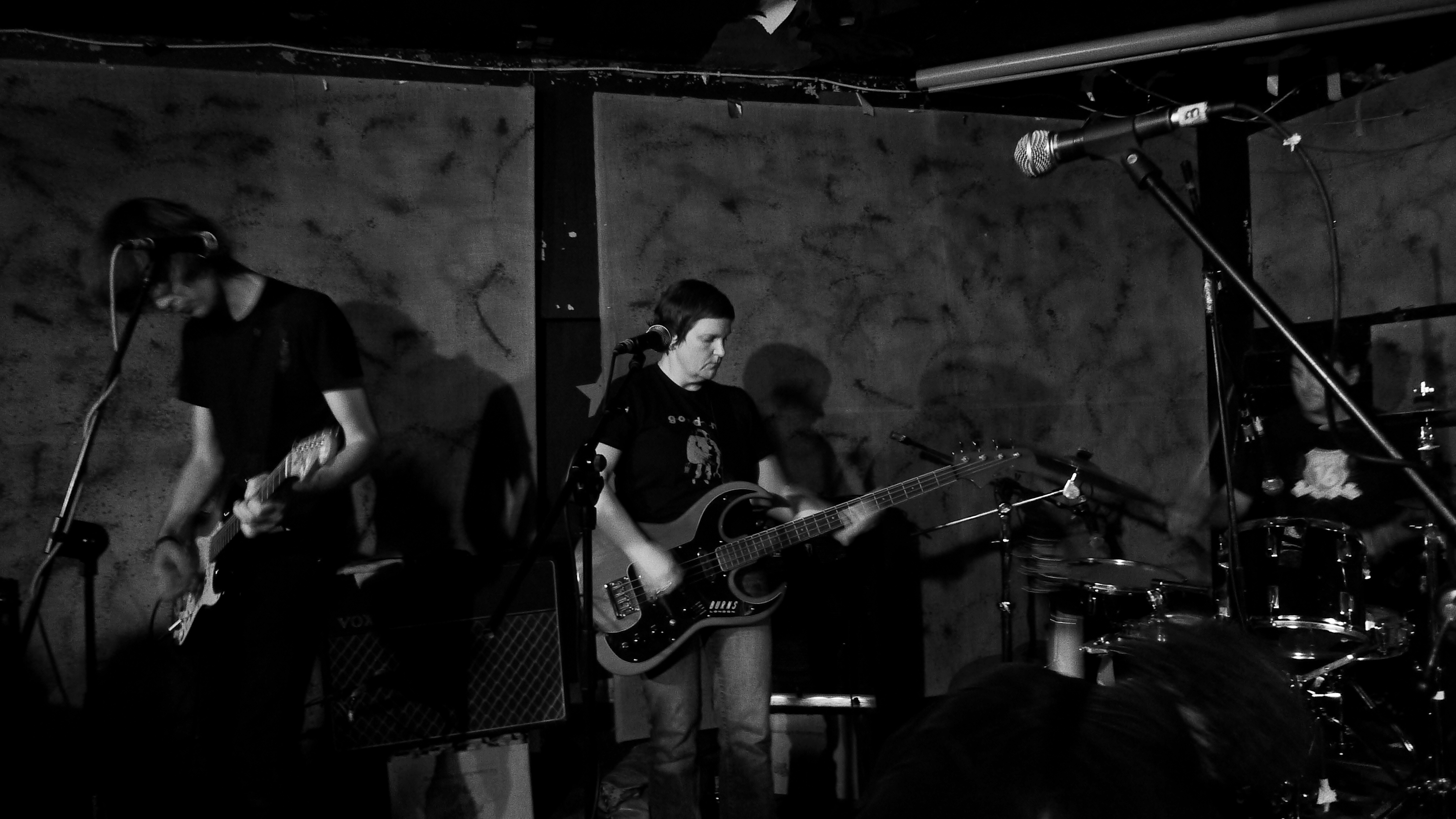 The 3Ds rhythm section with David. At The Windmill, Blenheim Gardens (Brixton, London).